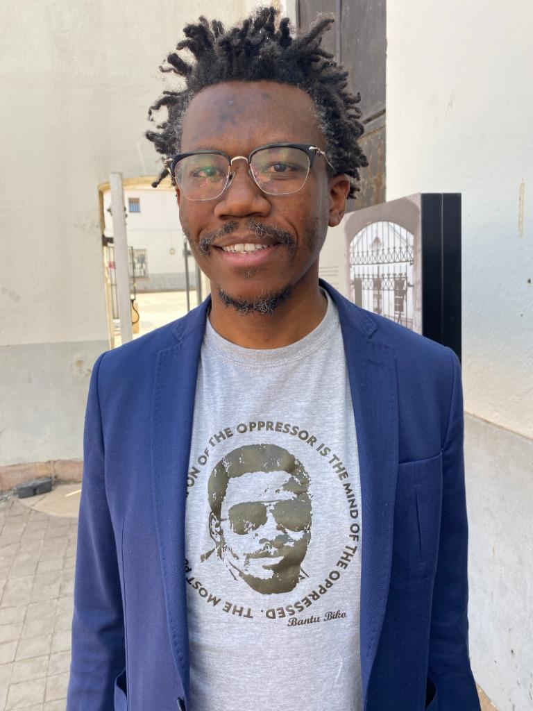 This pictures was taken by myself at constitution hill where I was running a train the trainer Wikipedia edit workshop where we invited high school learners and teachers to teach them how to edit on Wikipedia. The theme on the day was Constitution of South Africa, Tembeka Ngcukaitobi was one of the speakers to open the event on the day.